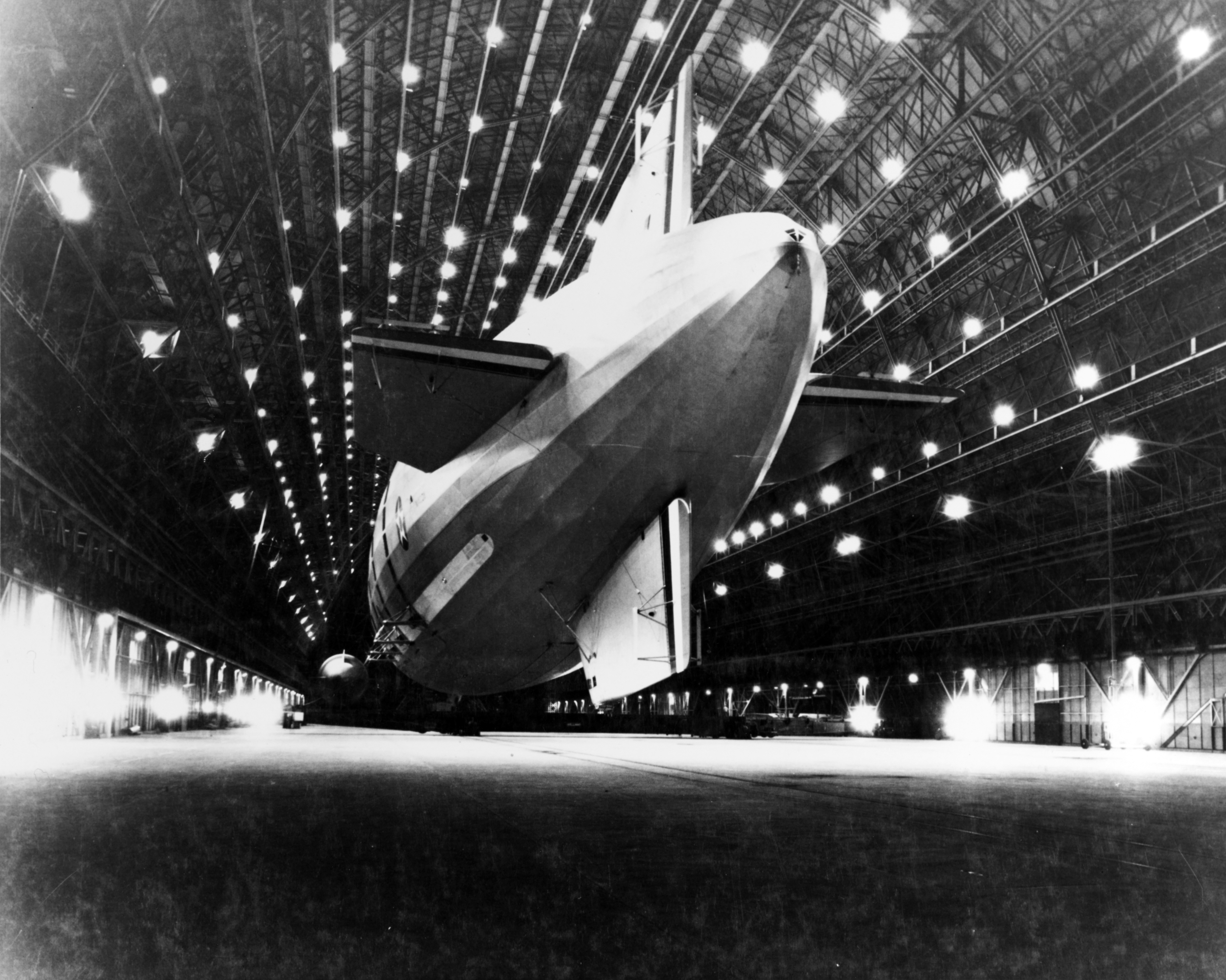 The USS Macon inside Hangar One at Moffett Field on October 15, 1933 — following a transcontinental flight from Lakehurst, New Jersey. Navy photo ID: NH 85746